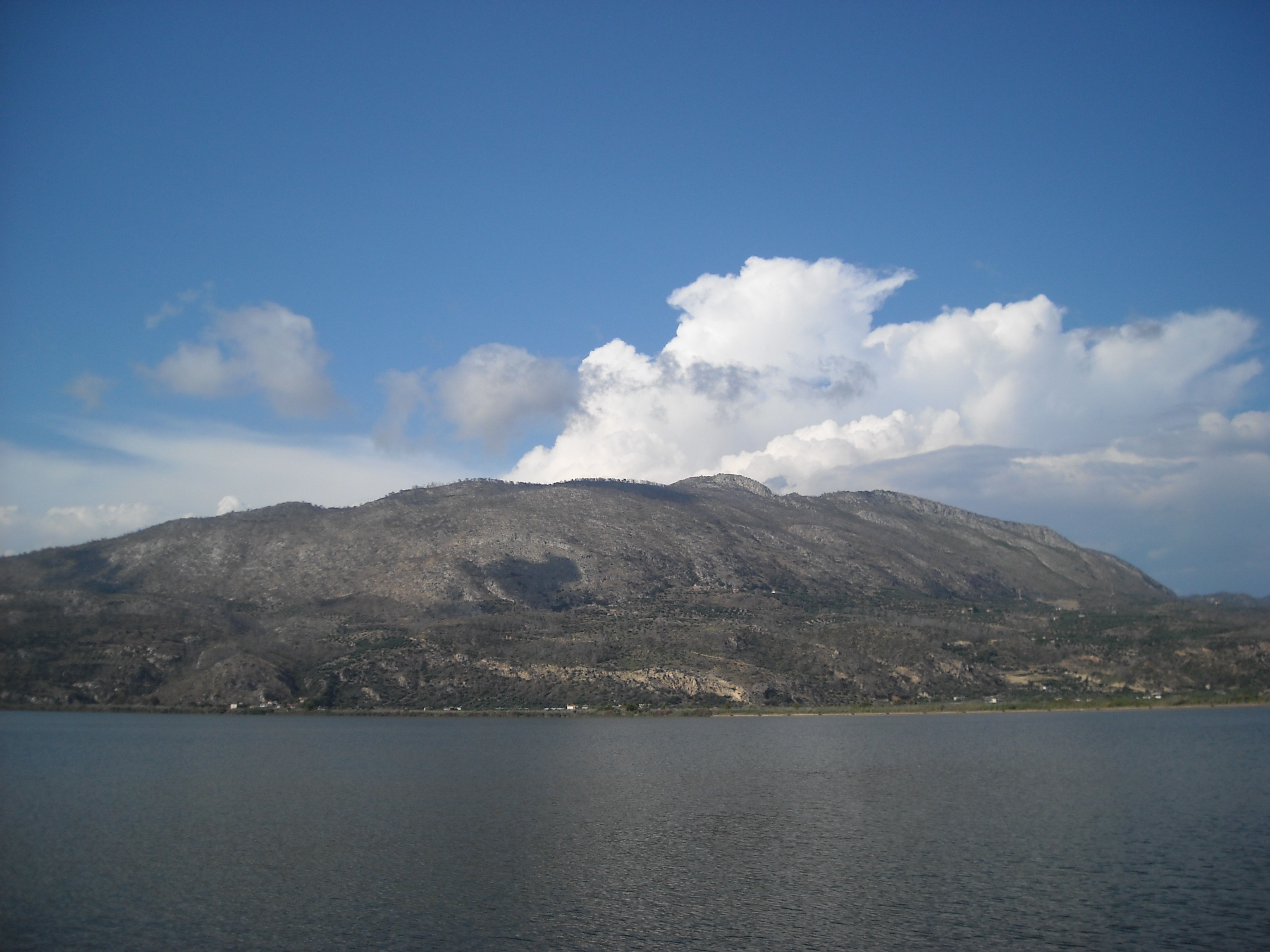 View of Lapithas mountain from the opposite shore of Kaiafas Lake.